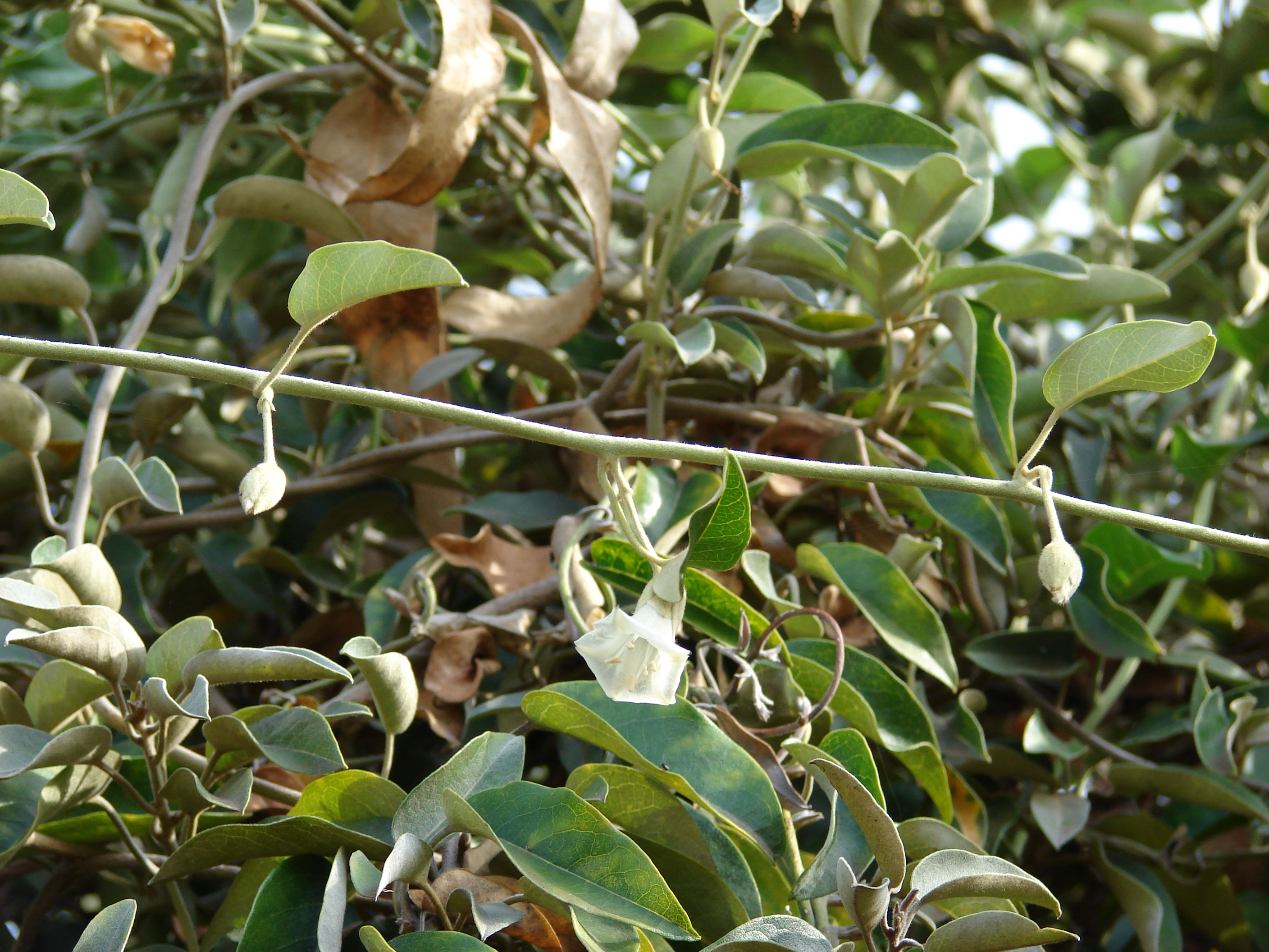 Bonamia menziesii (flower). Location: Maui, Makawao